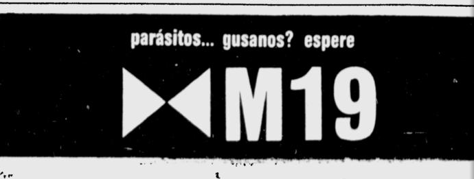 This image shows an historical advertisement in the newspaper 'El Tiempo' (Colombia, page 2C) placed by the guerrilla "M19" (acronym of "19th of April Movement") before steal the Bolivar Sword in January 17, 1974. The ad say "parasites... worms? wait M19", in reference to the politics of the time as an illness and the M19 as the cure. To the moment of the publication (January 17th, 1974), nobody knowed about M19. With the theft of the sword, the group debuted.